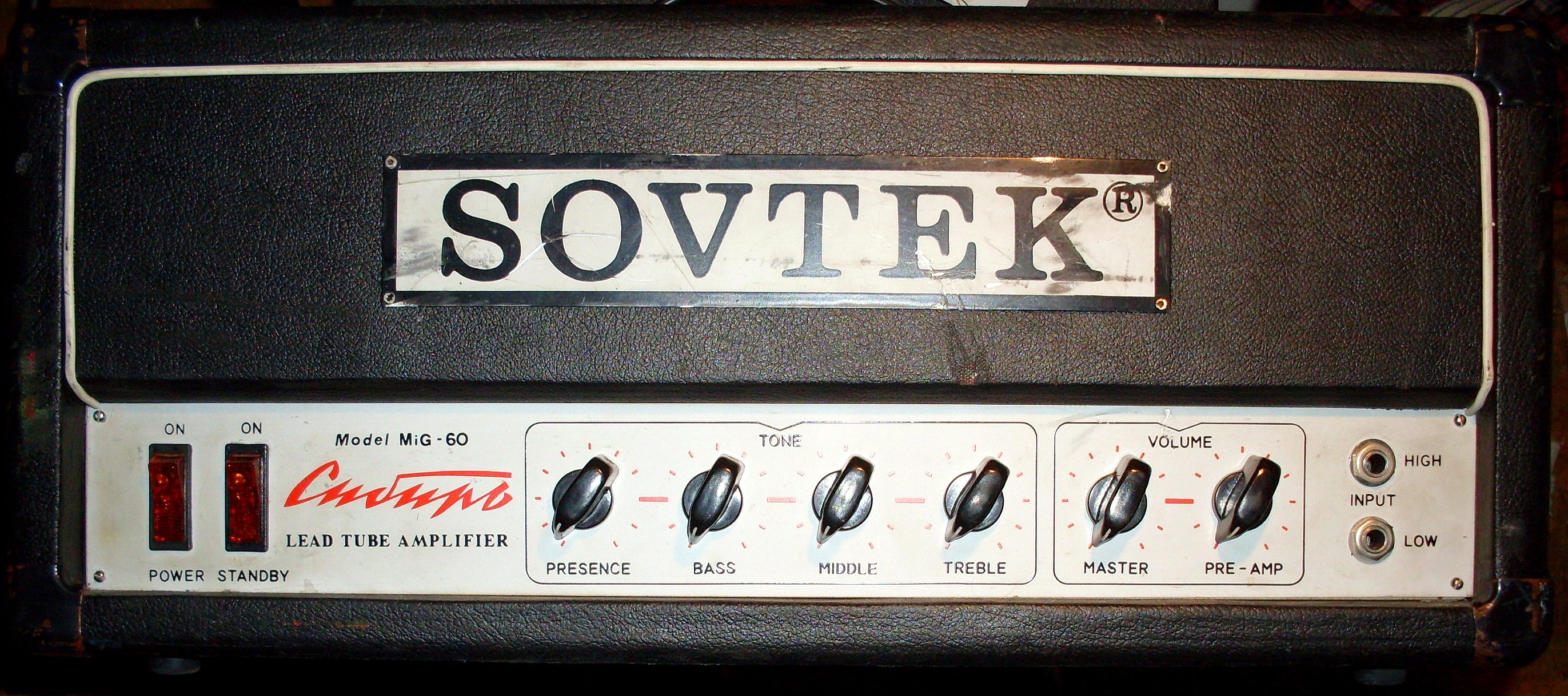 Sovtek MiG-60 Lead Tube Amplifier front